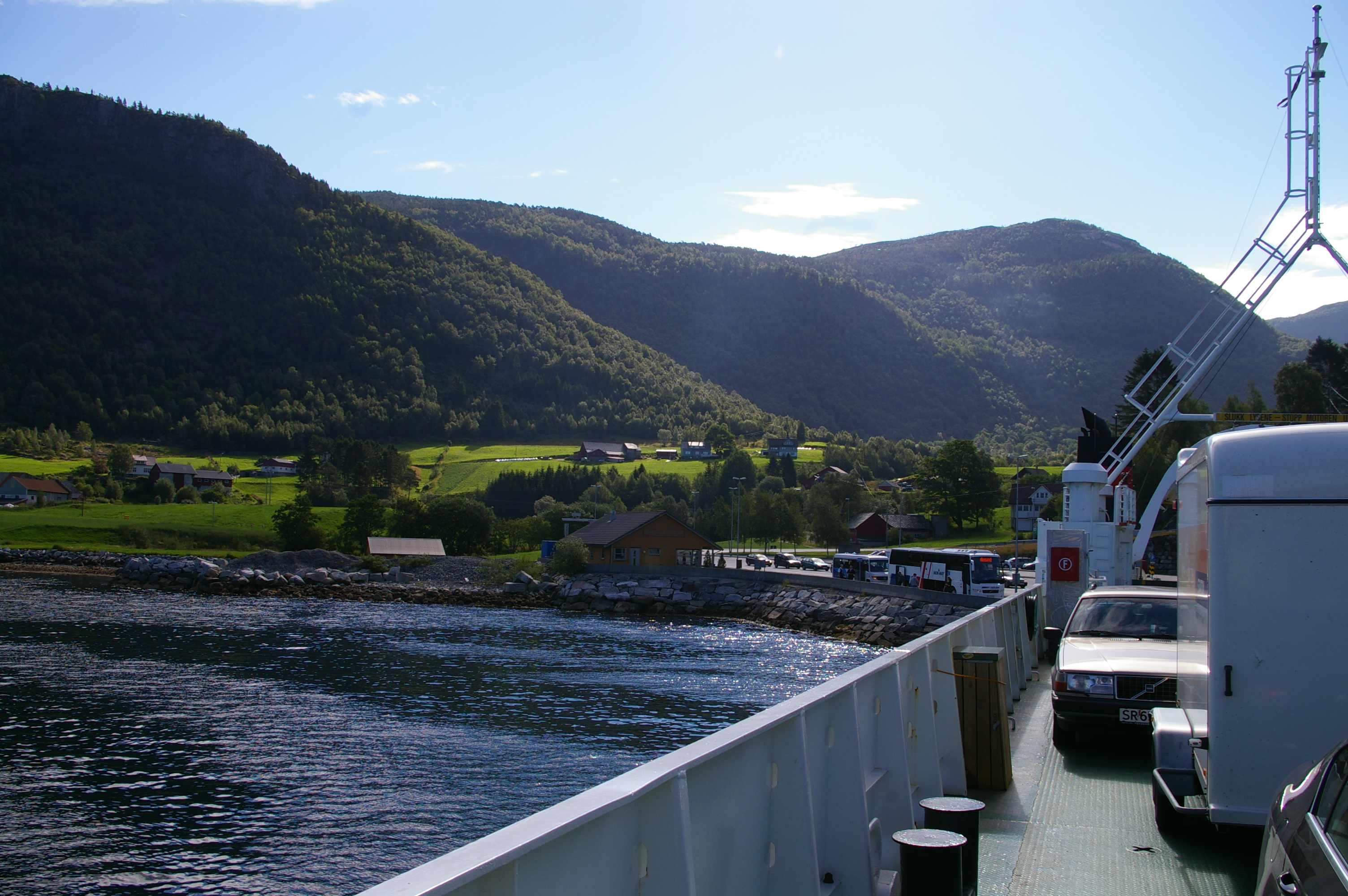 Oppedal on the southern side of Sognefjorden in Gulen, Sogn og Fjordane, Norway.